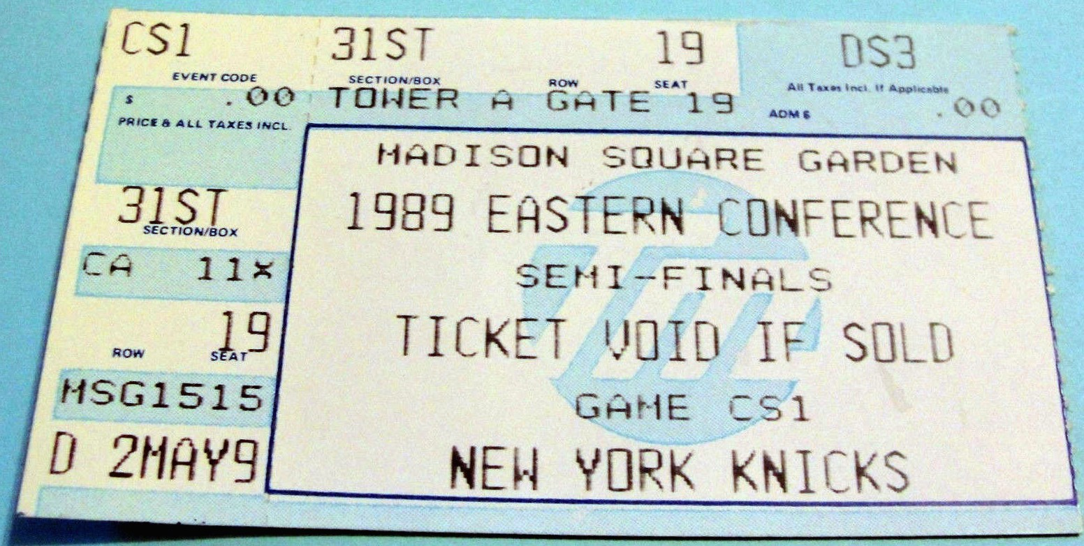 A ticket for Game 1 of the 1989 Eastern Conference Semifinals featuring the Chicago Bulls versus the New York Knicks at Madison Square Garden on May 9, 1989.